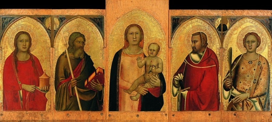 Maso_di_Banco_Polyptych_from_Santo_Spirito,__c._1340